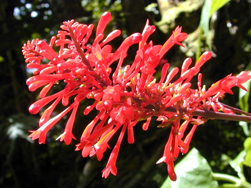 Odontonema cuspidatum (Nees) Lorence et al. (1995) flowers; growing in upper Makiki Valley, O‘ahu—photographed by Eric Guinther.